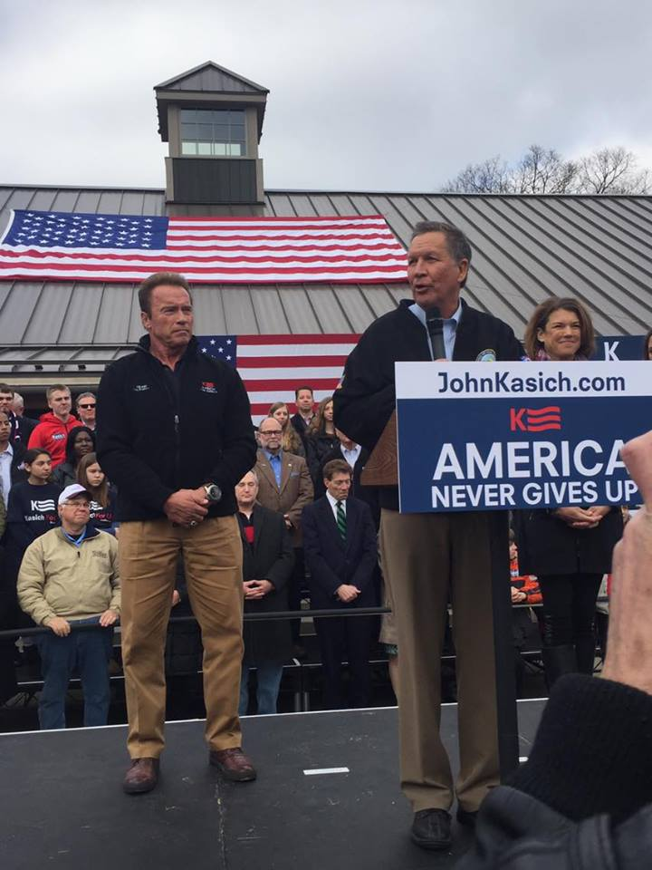 John Kasich speaking with Arnold Schwarzenegger at Kasich's presidential rally at the Franklin Park Conservatory in Columbus, Ohio.